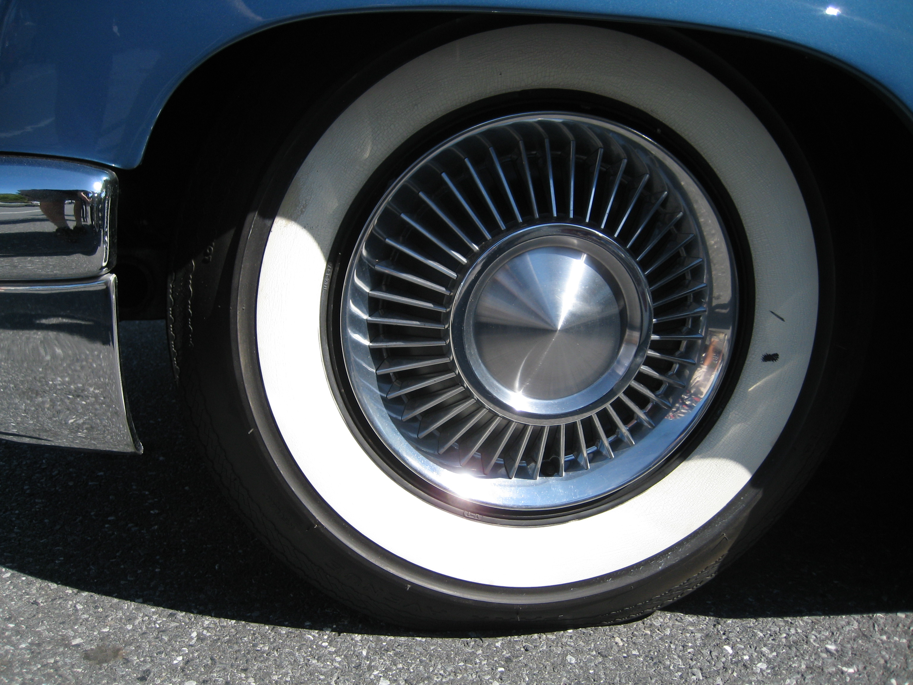 Seen in the car corral at the big fall meet in Hershey, 2010.